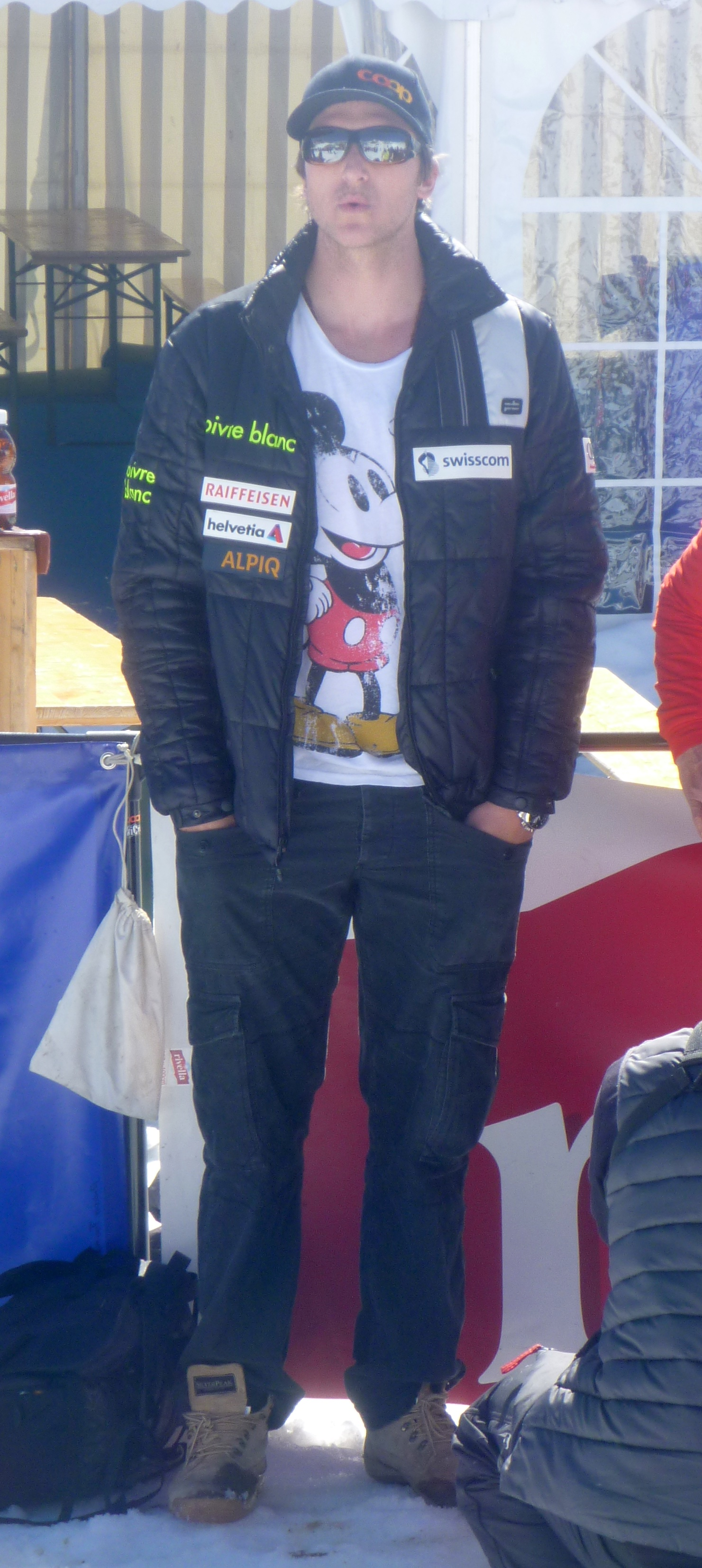 Skicrosser Mike Schmid at the Swiss Championships 2011 in Arosa.